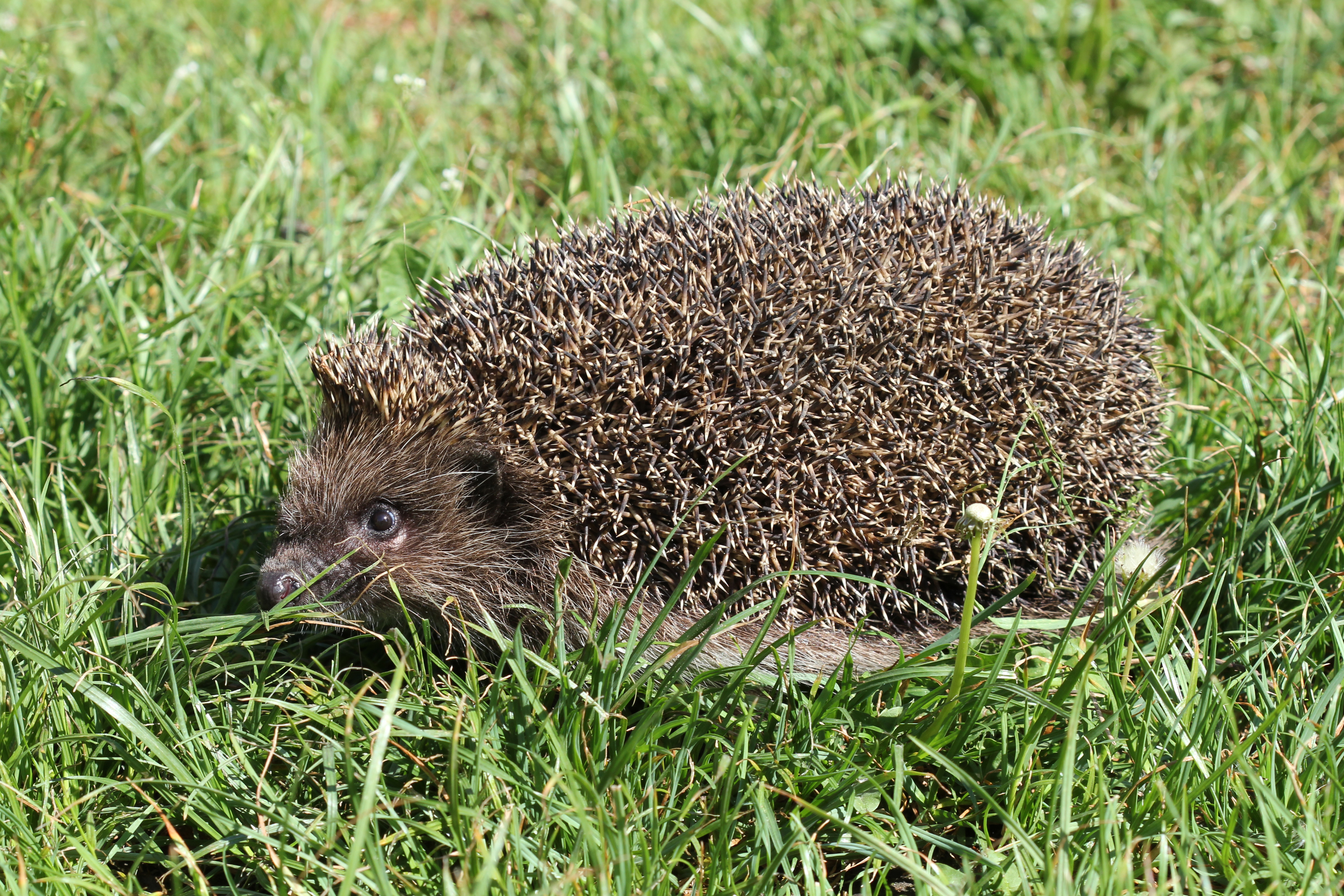 Northern white-breasted hedgehog. Ukraine.